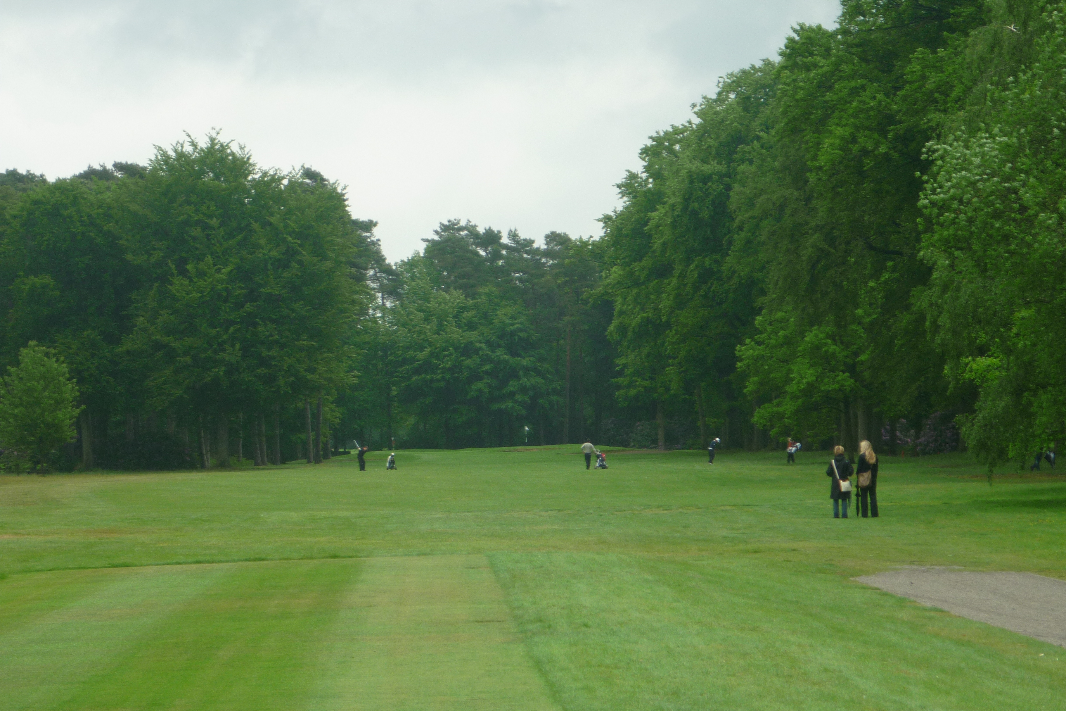 Rinkven Golf Club, hole 10